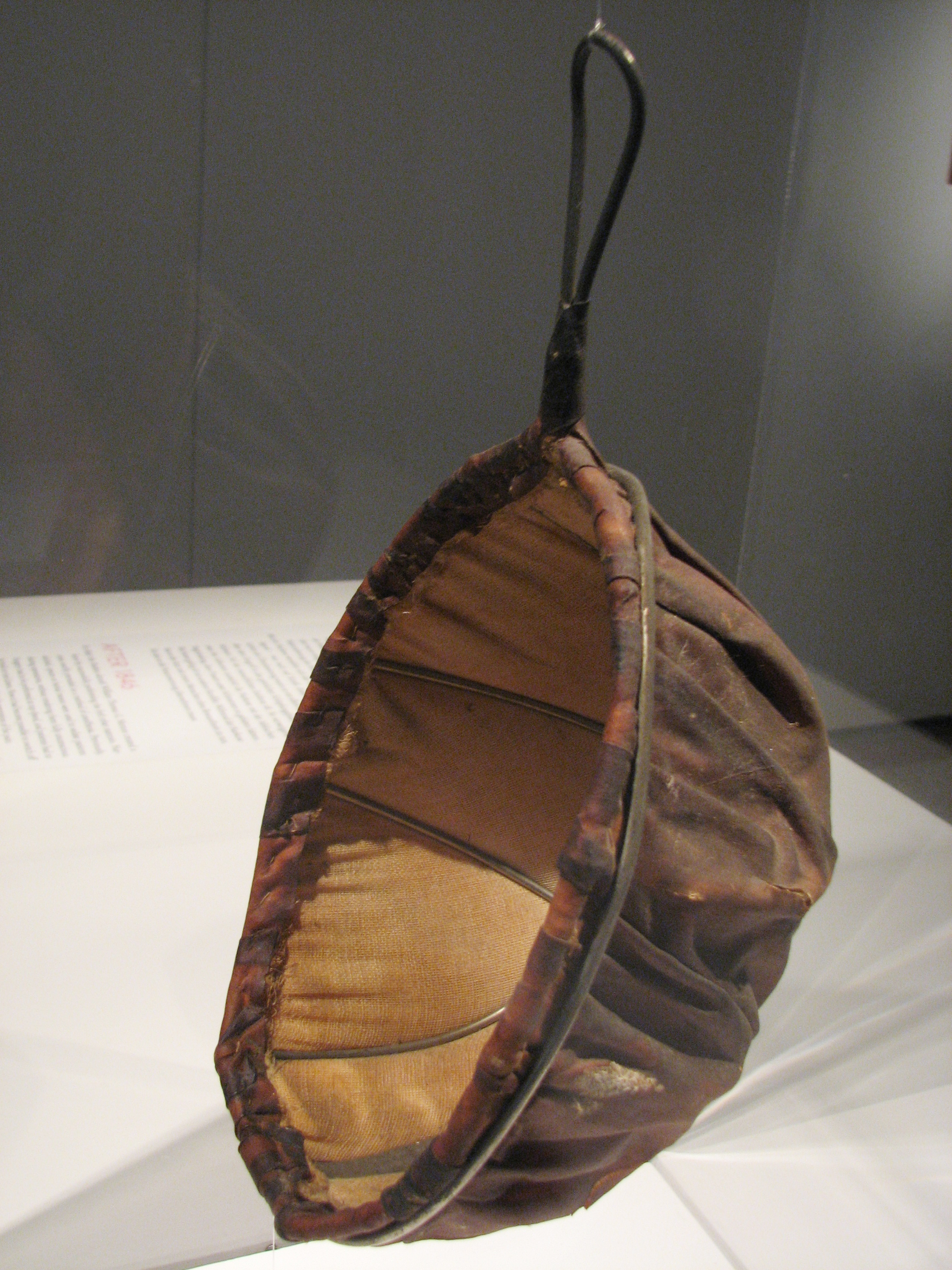 Object of the exhibition "Pain" in Berlin, Germany